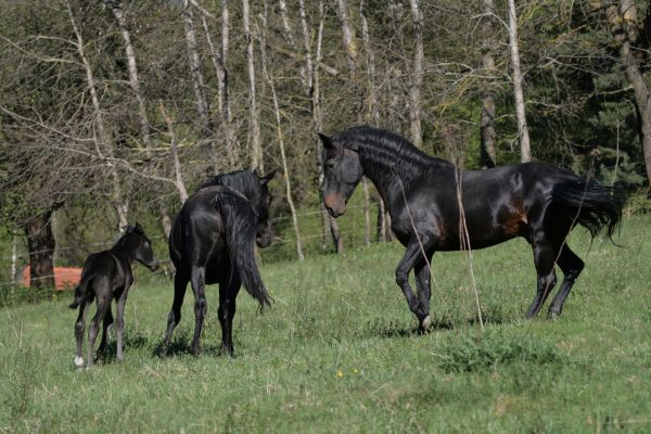 Kabardian stallion Ezop-Edil with mare Temsa and foal Edils Echo